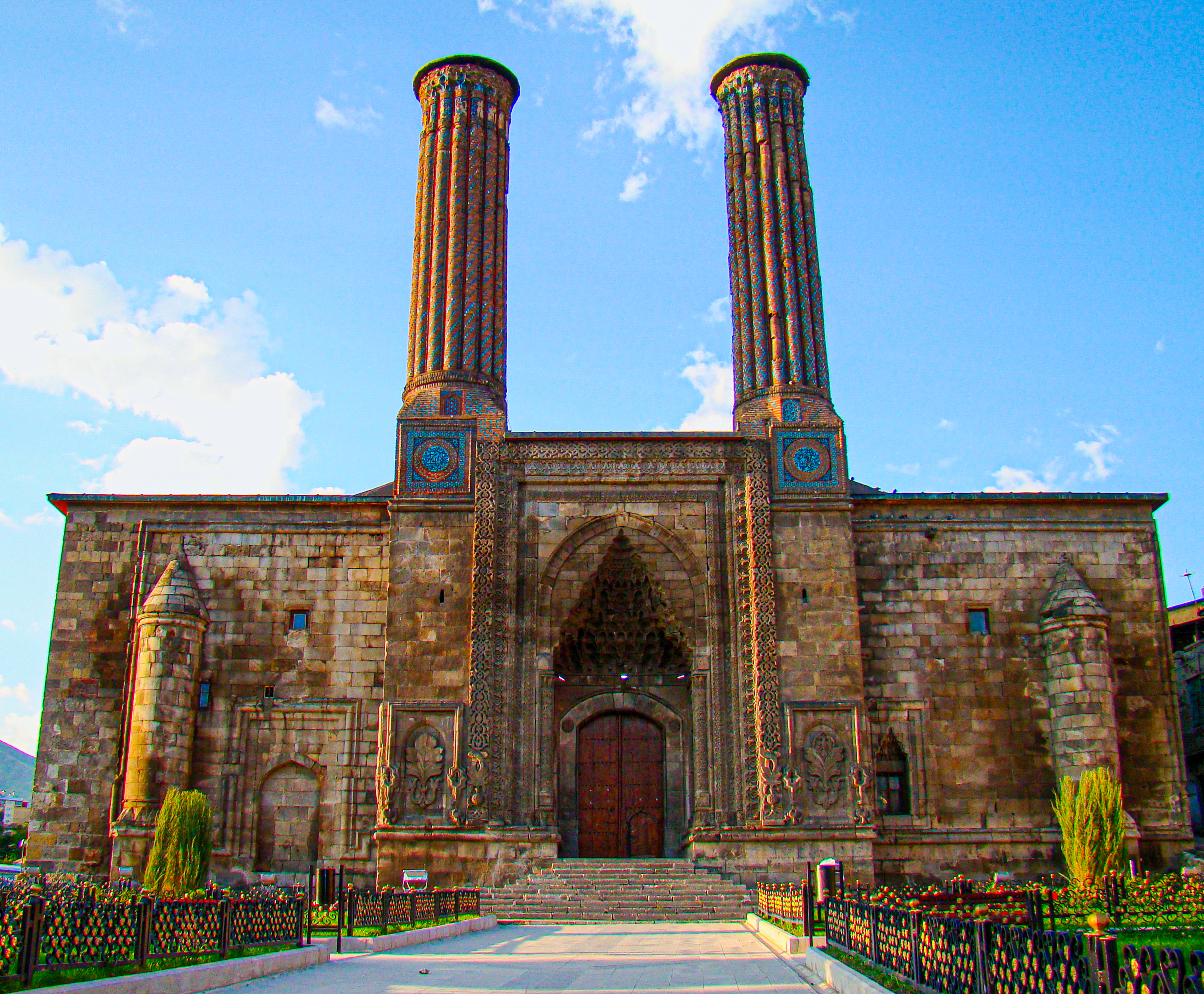 The Çifte Minareli Medrese in Erzurum, Turkey, soon after sunrise. This is a building from the Seljuk era, evident amongst other things from the symmetry and the double-headed eagle on the panel to the right of the entrance.